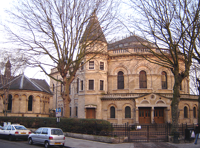 The Round Chapel, Lower Clapton, Hackney, London. 19 September 2005. Photographer: Fin Fahey